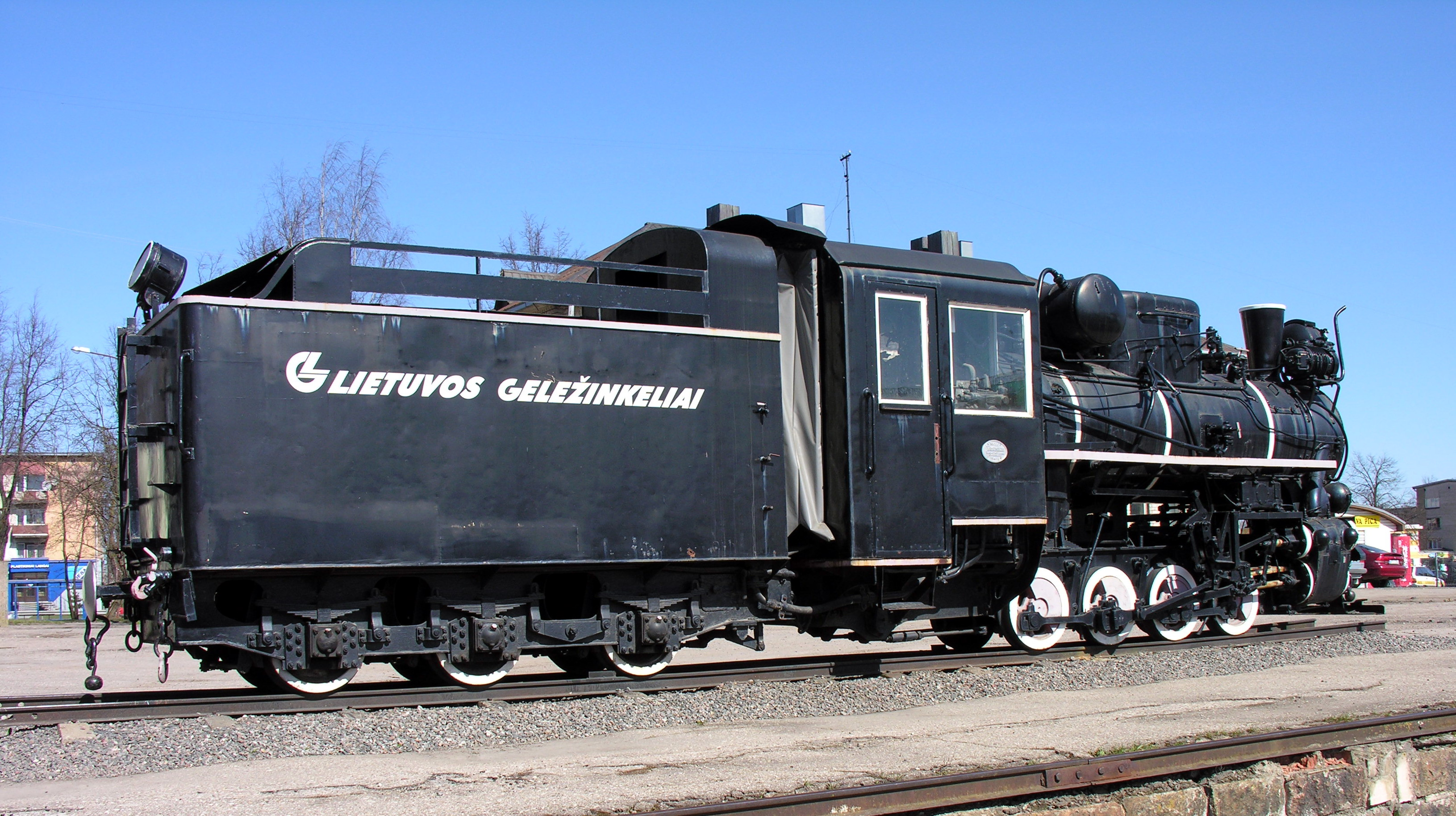 Kp4 or other locomotive of its class